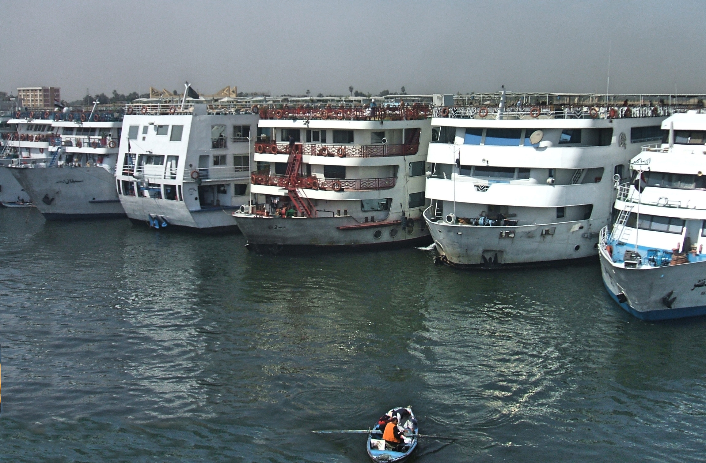 Boat Vendors on the Nile This is an image with the theme "Africa on the Move or Transport" from: Egypt